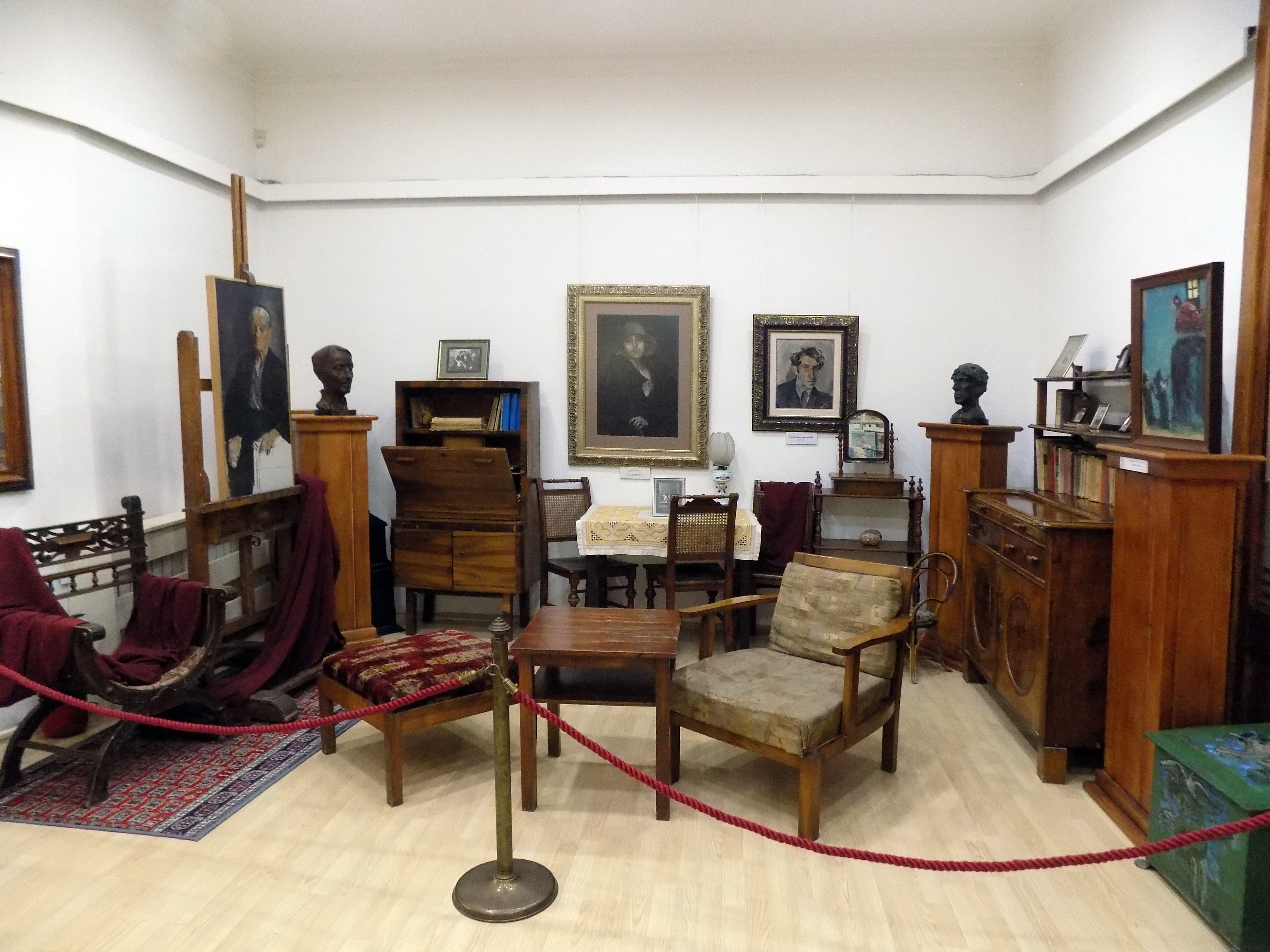 Milena Pavlović-Barili Gallery (Milena's home) - Original furniture from Milena's home